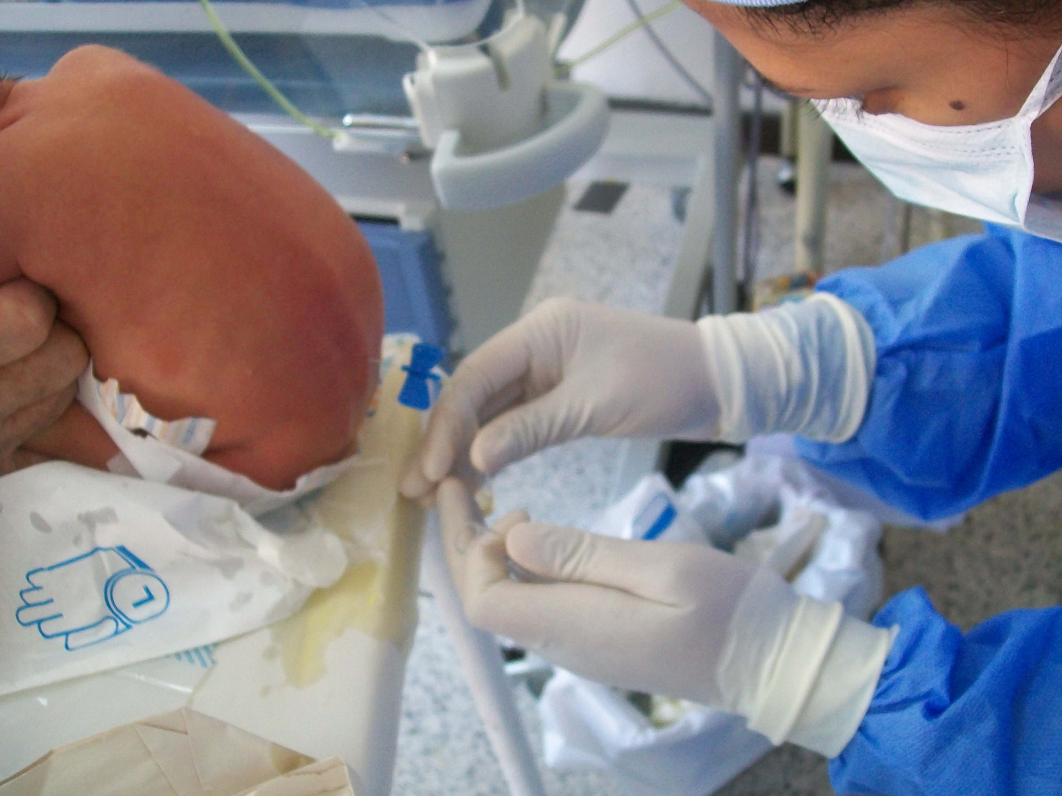 Lumbar puncture procedure in a new born infant in a Neonatal Medium Care Unit, Maracay, Venezuela. Same patient as File:New born spinal tap.JPG.